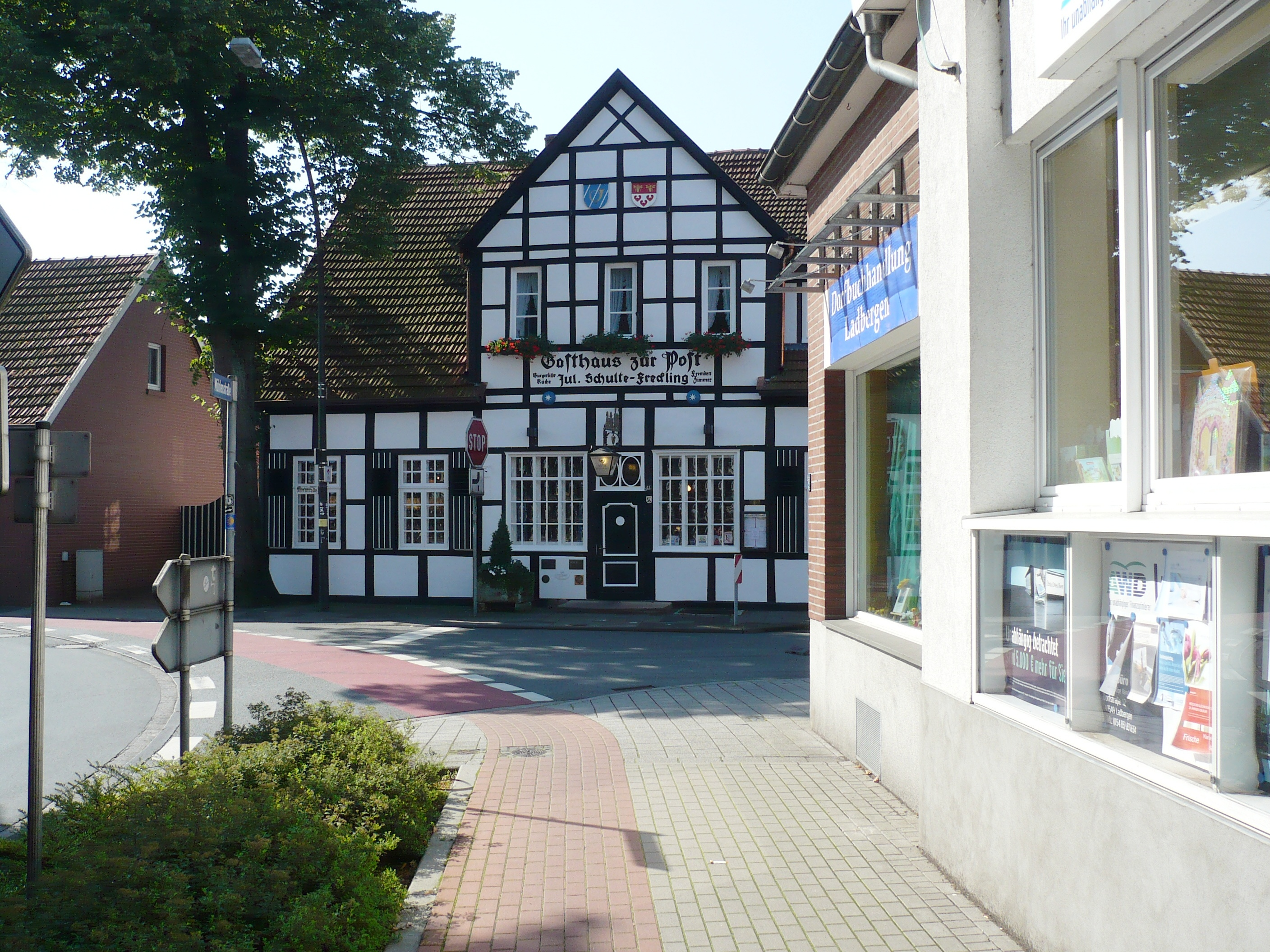 Ladbergen Dorfstraße.